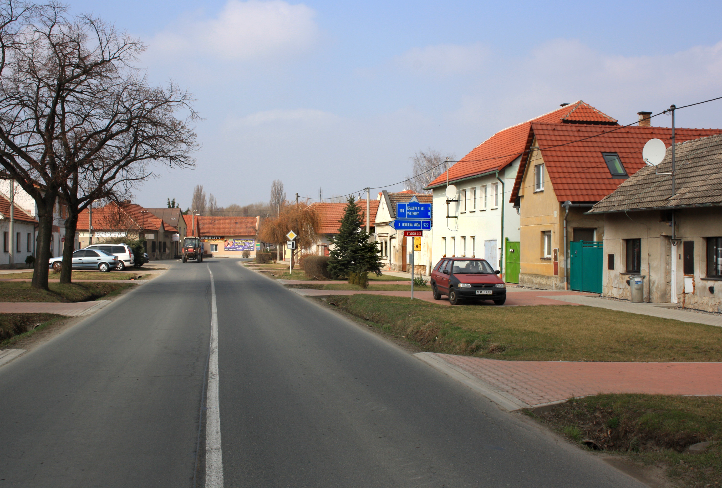 Road to Kralupy nad Vltavou in Chlumín, Czech Republic